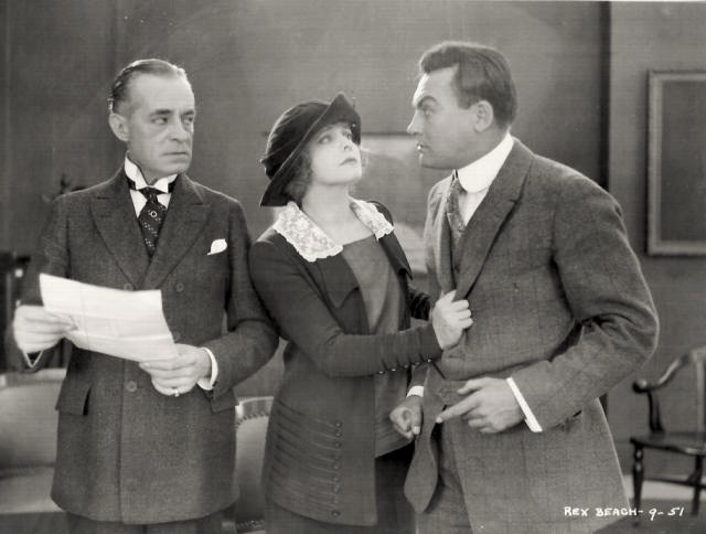 Left to right: Robert McKim, Myrtle Stedman, and Curtis Cooksey in The Silver Horde (1920) - publicity still.